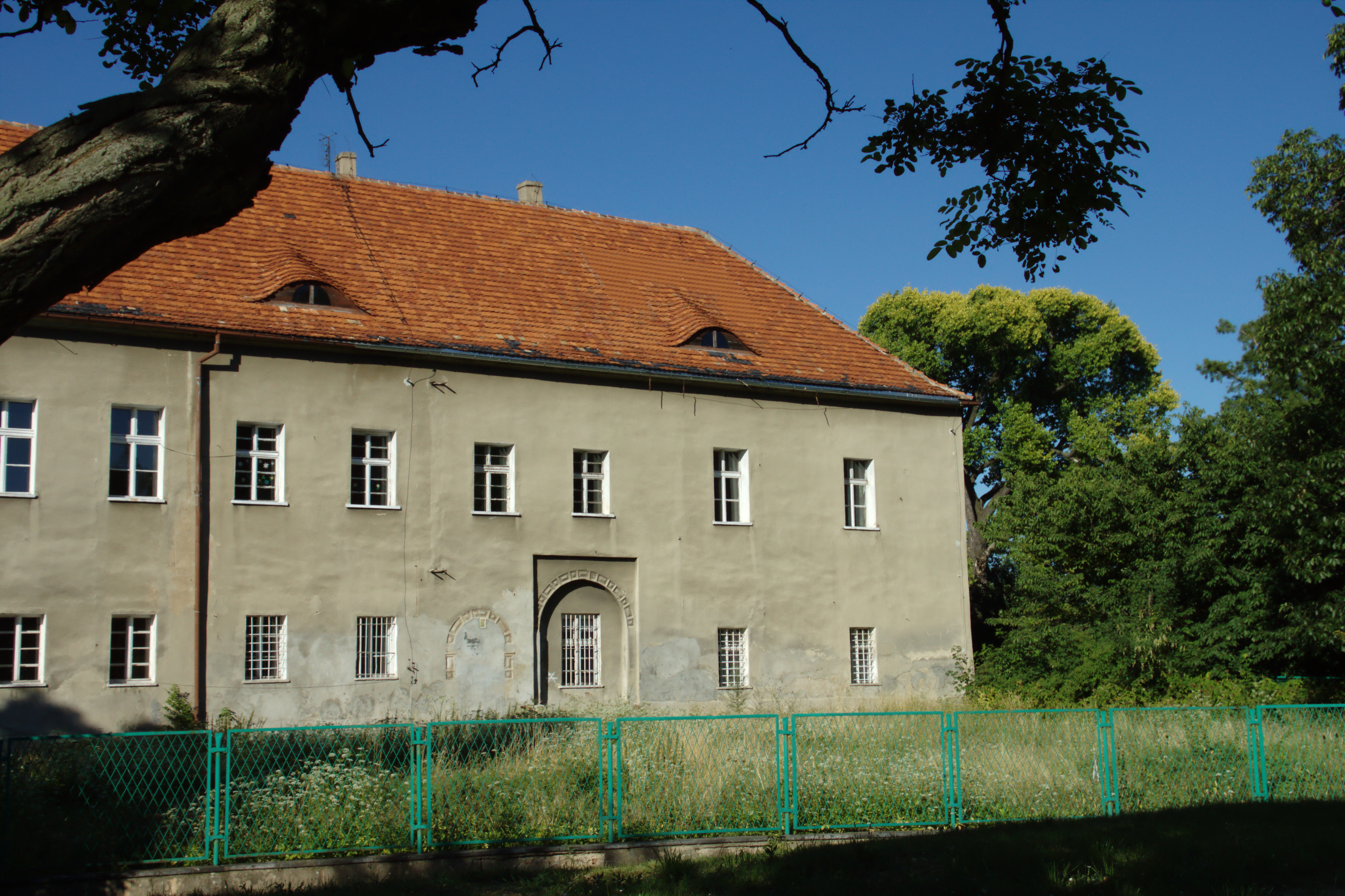 The chateau in the town of Bielawa, Poland